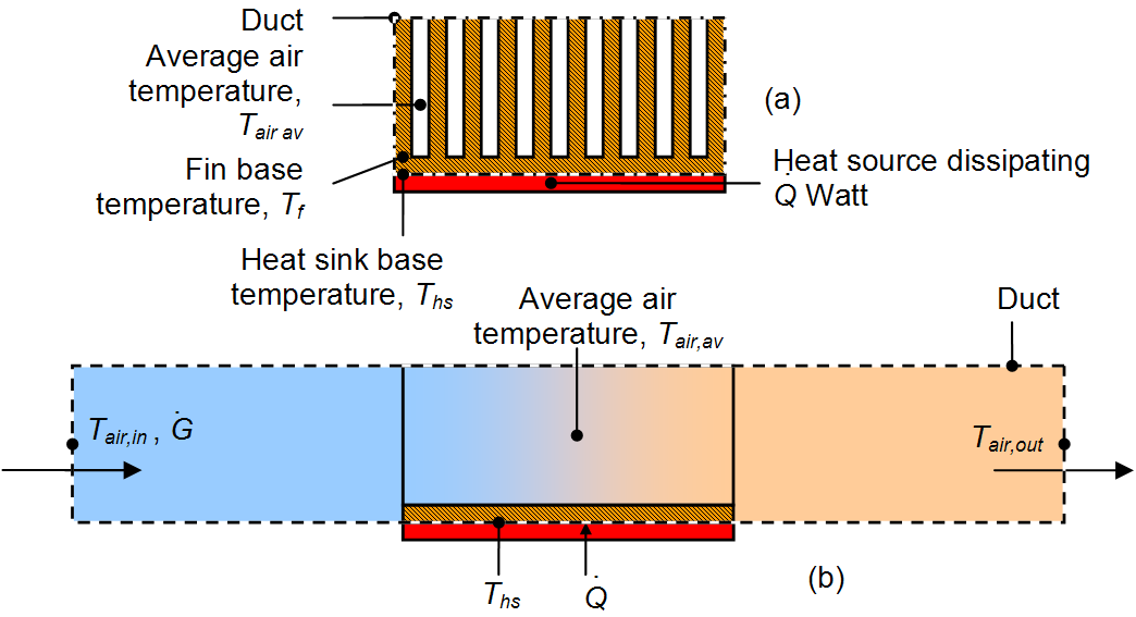 Duct around a heat sink with a heat source on its base. The duct is the control one control volume for the calculation of the heat sink performance.